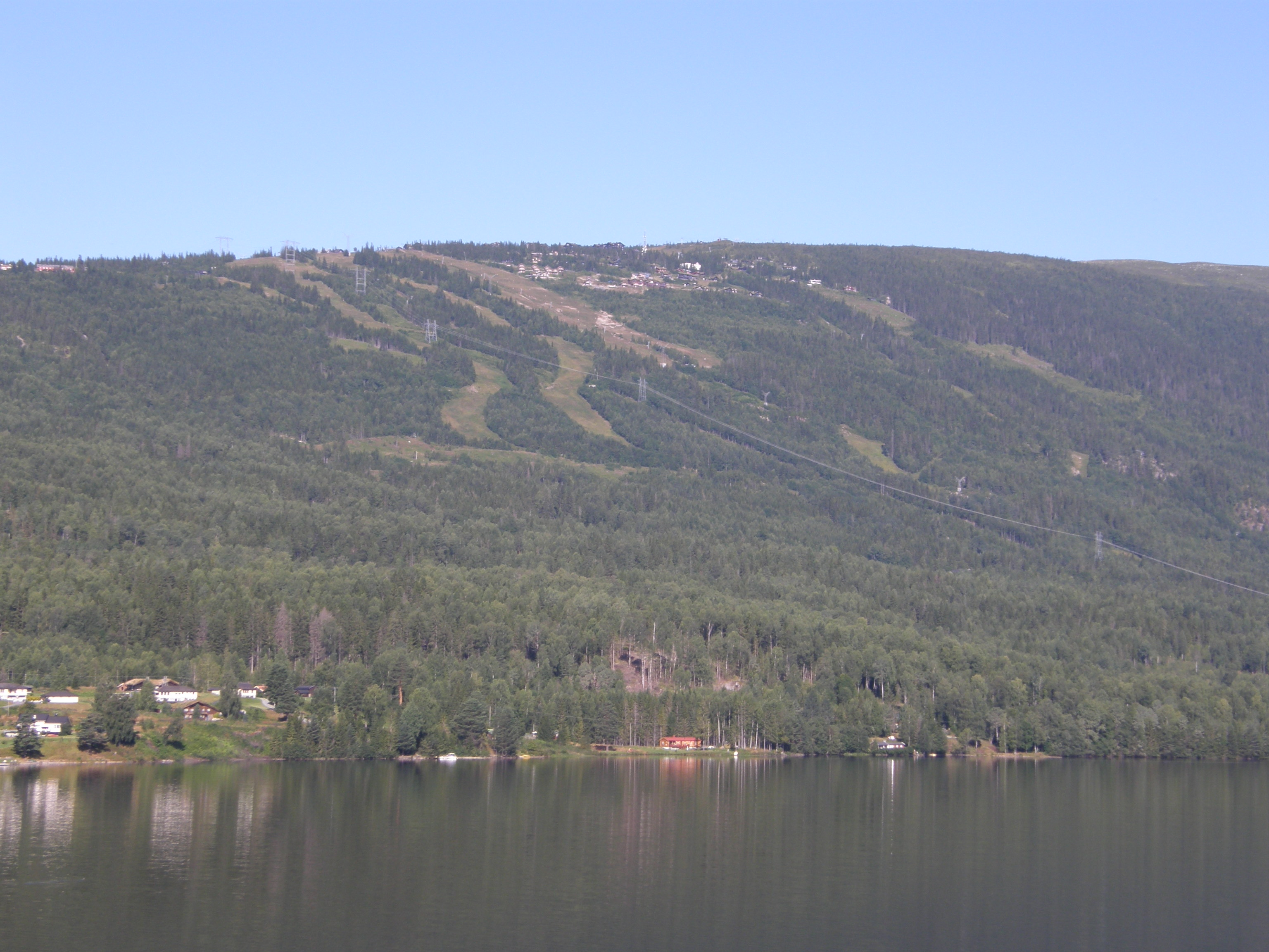 Norefjell Ski Resort in Krødsherad, Norway, with Krøderen in the foreground